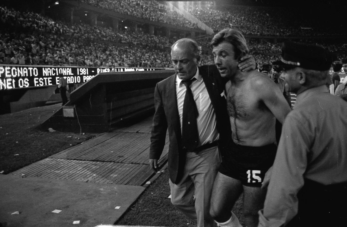 River Plate manager Alfredo Di Stéfano in 1981.